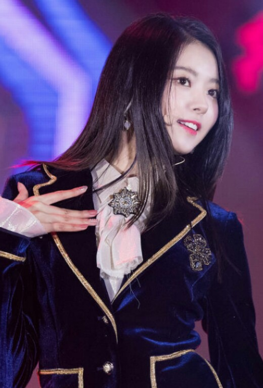 Lim Na-young performing during the Pyeongchang Winter Event on March 3, 2018.